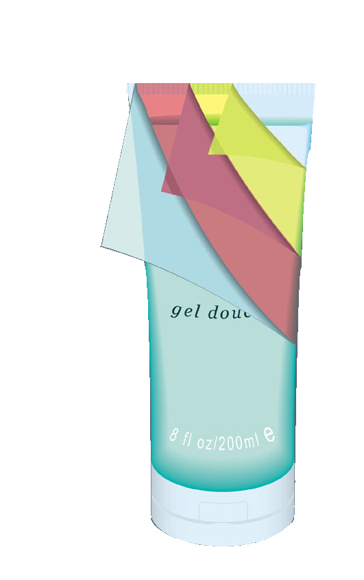 Multi-Layer Plastic Tube construction - in this case 5 layers